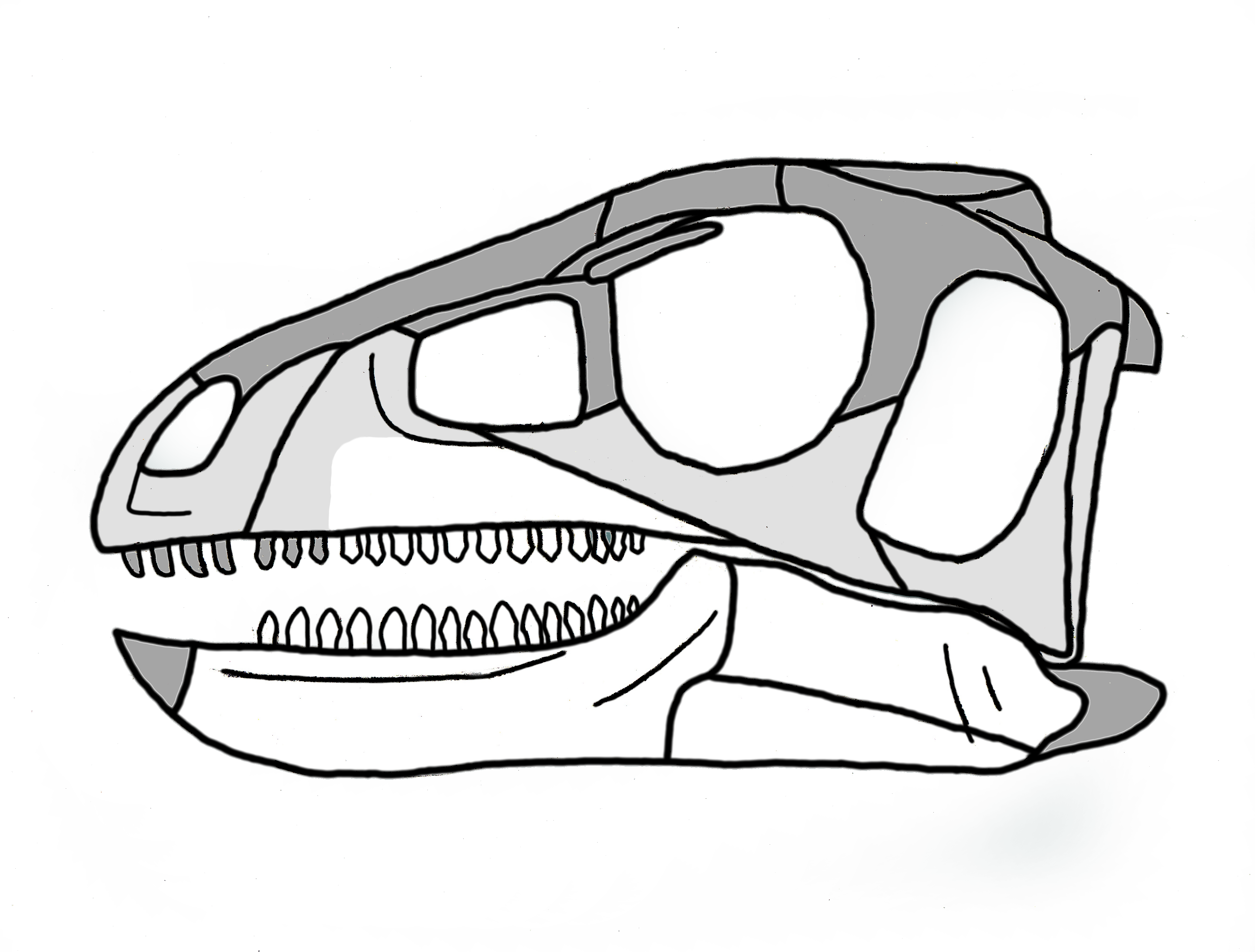 Pisanosaurus mertii skull reconstruction, white bones are known currently, light grey bones are either lost or eroded away